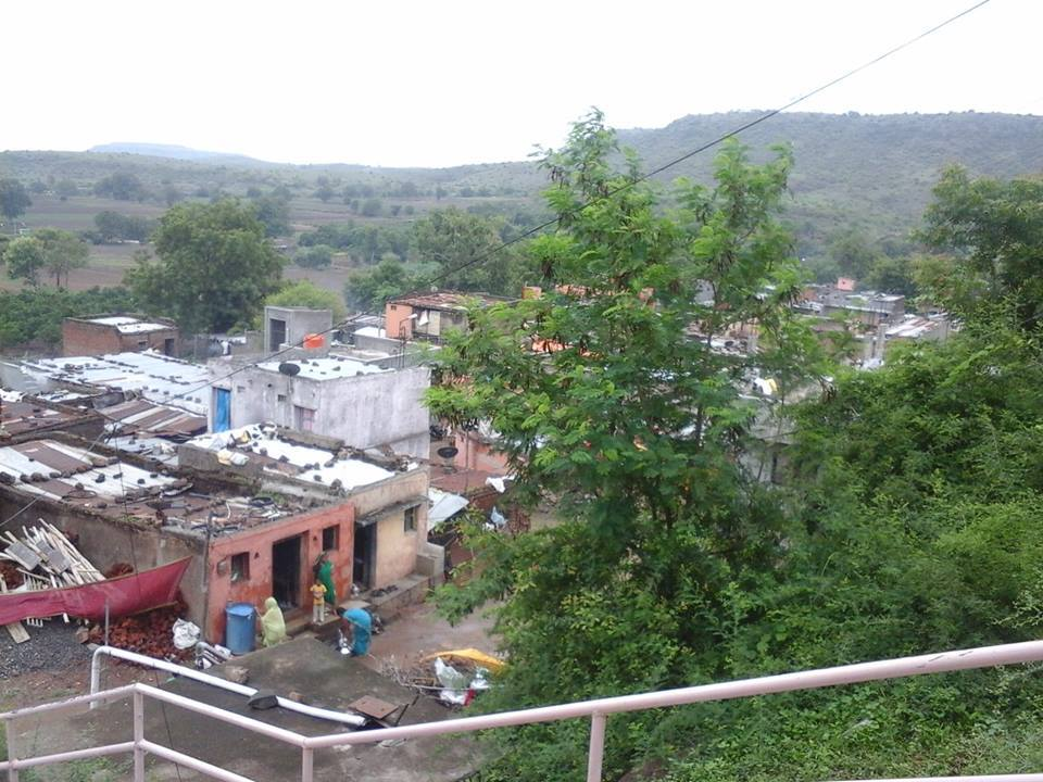 village